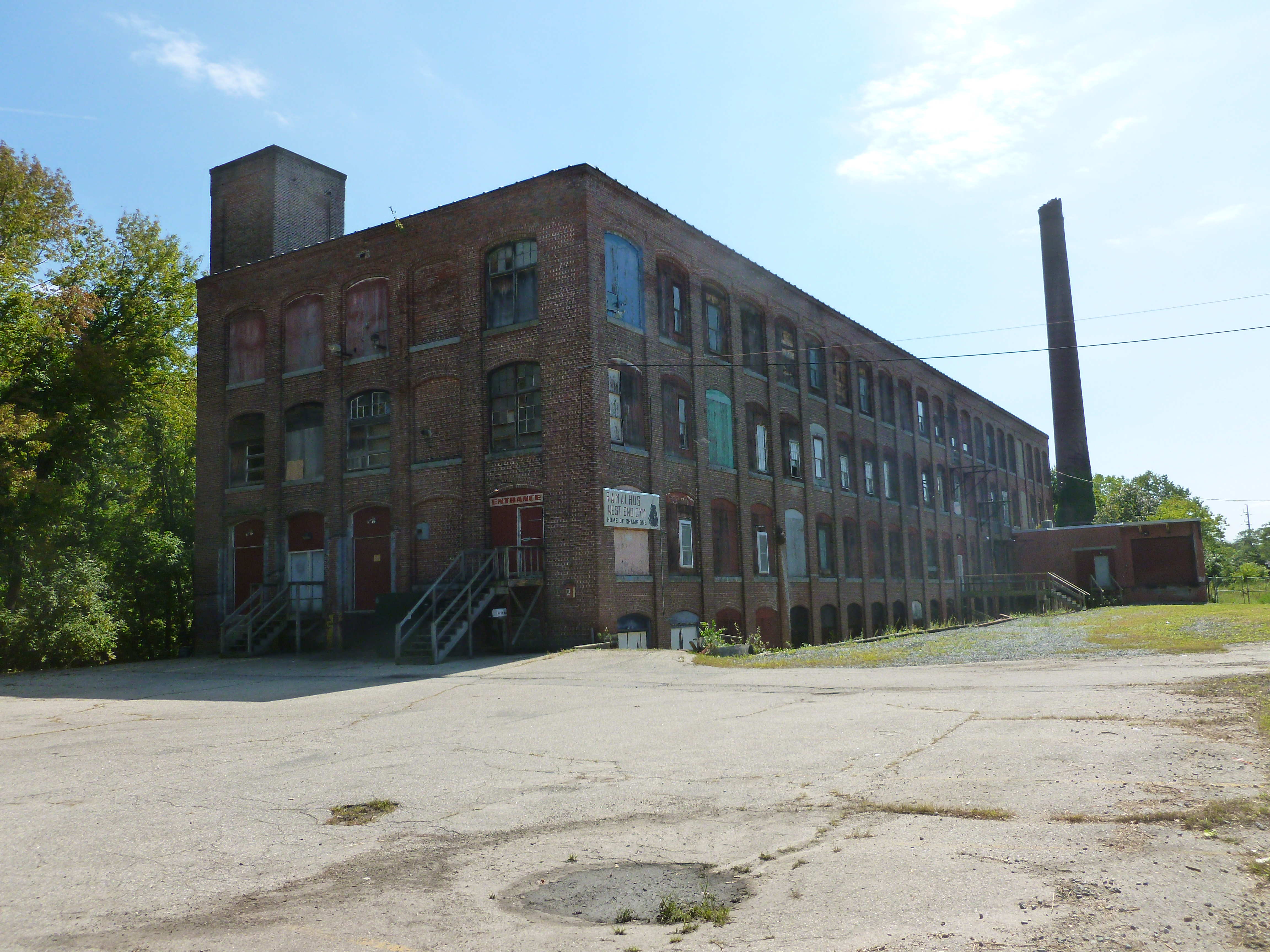 Ramahlos West End Gym at the former Hockmeyer family Waterhead Mill. North and west sides of building shown. Ramhalos Gym was featured in the 2010 film 'The Fighter'.